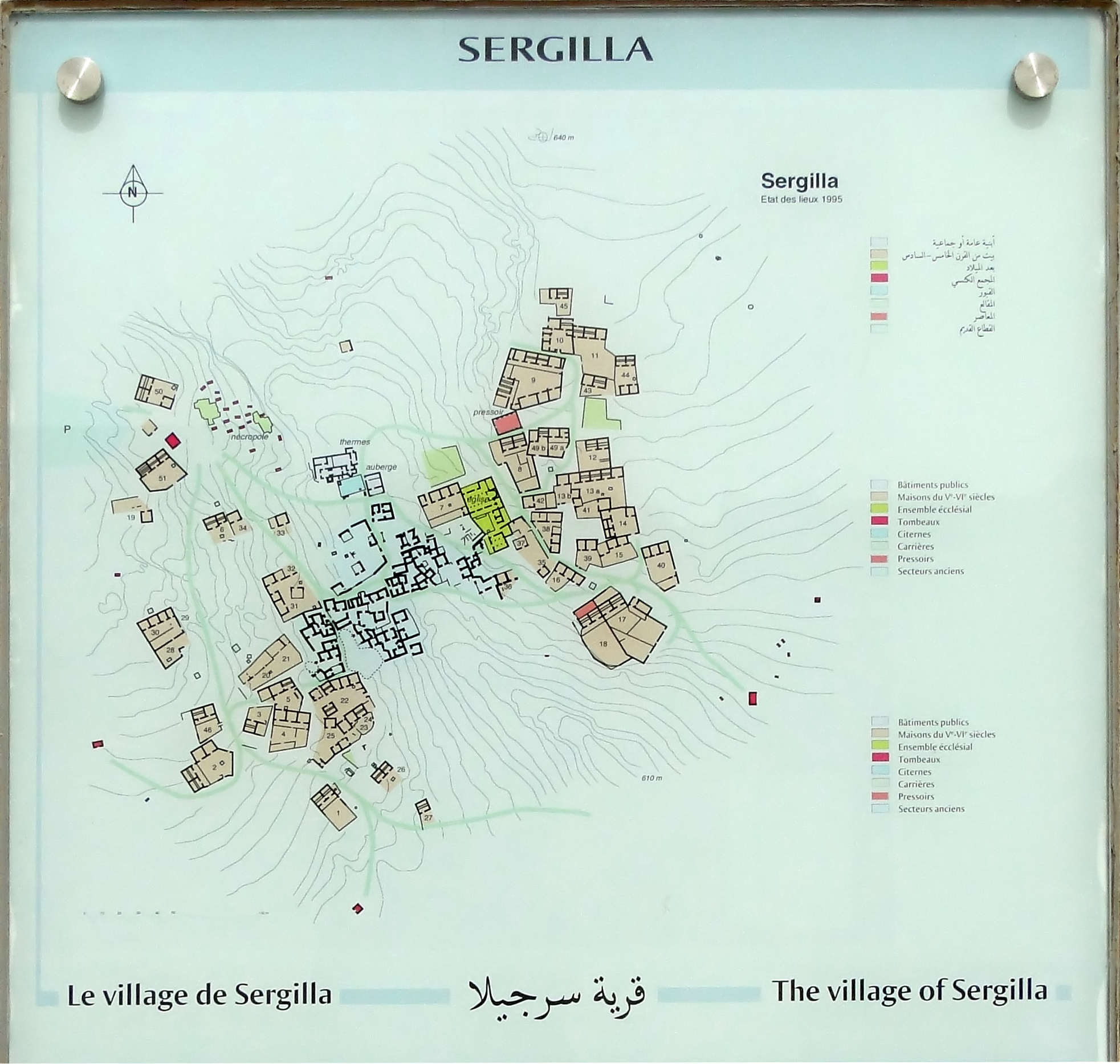 Plan of Serjilla, Syria